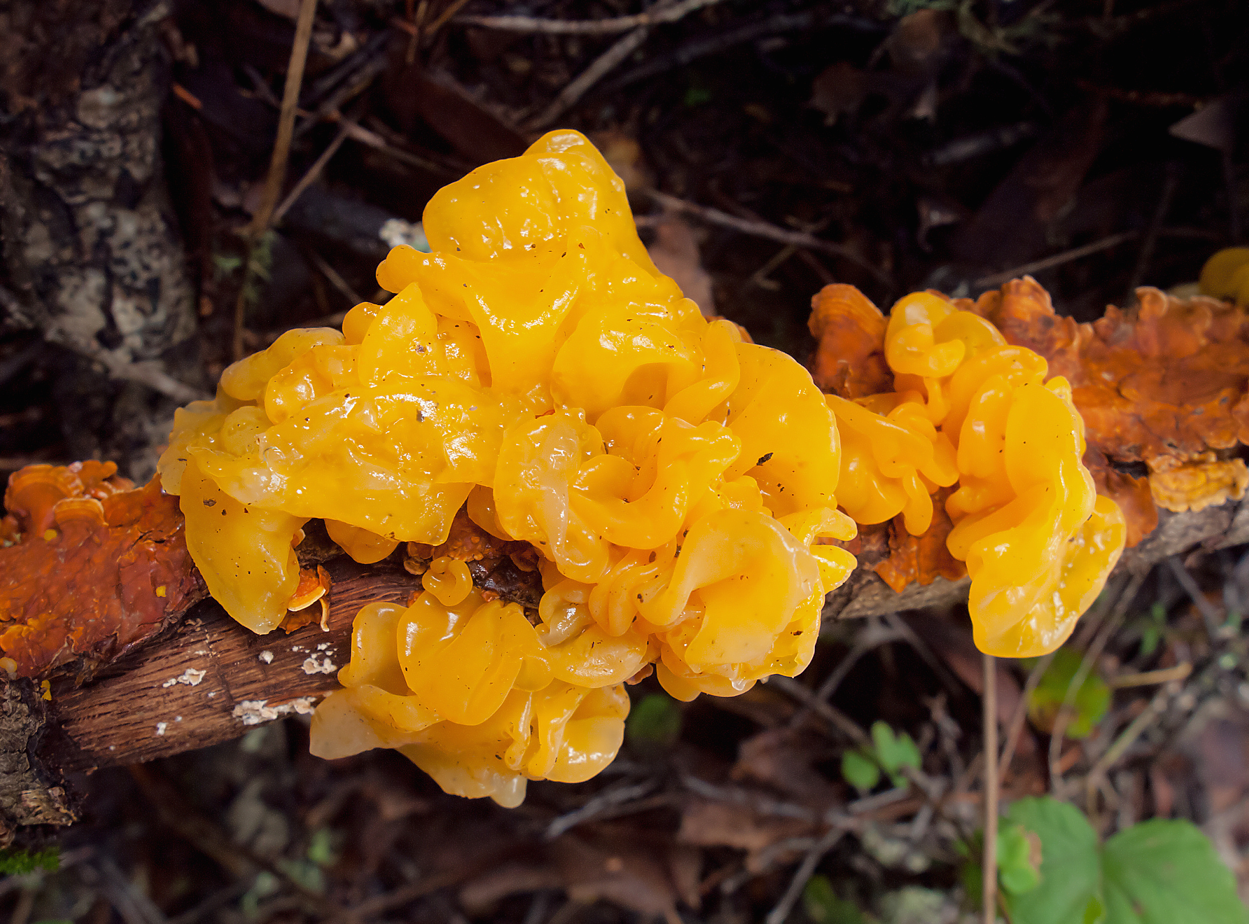 Golden ear (Tremella aurantia) parasitizes the mycelium of Stereum hirsutum Family: Tremellaceae Kingdom: Fungi Windy Hill Open Space Preserve Portola Valley, CA ____________ Wikipedia